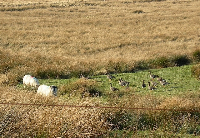 There's Enough Grass For Us All Islay is one of the most important wintering sites for geese, especially the Greenland White Fronted Geese shown in this photograph. For more information